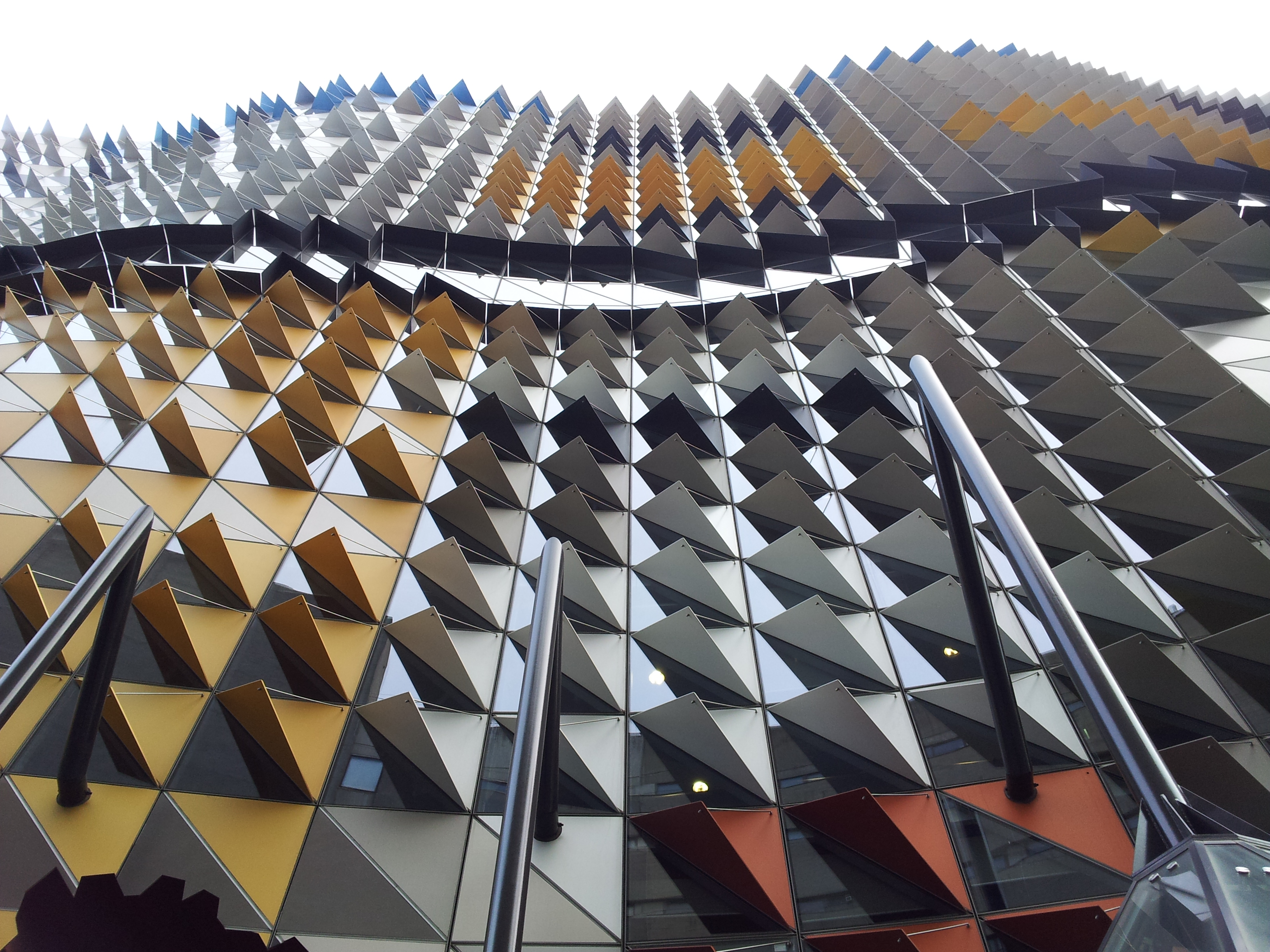 Exterior Anodised Facade with 8 colours by Sapphire Aluminium